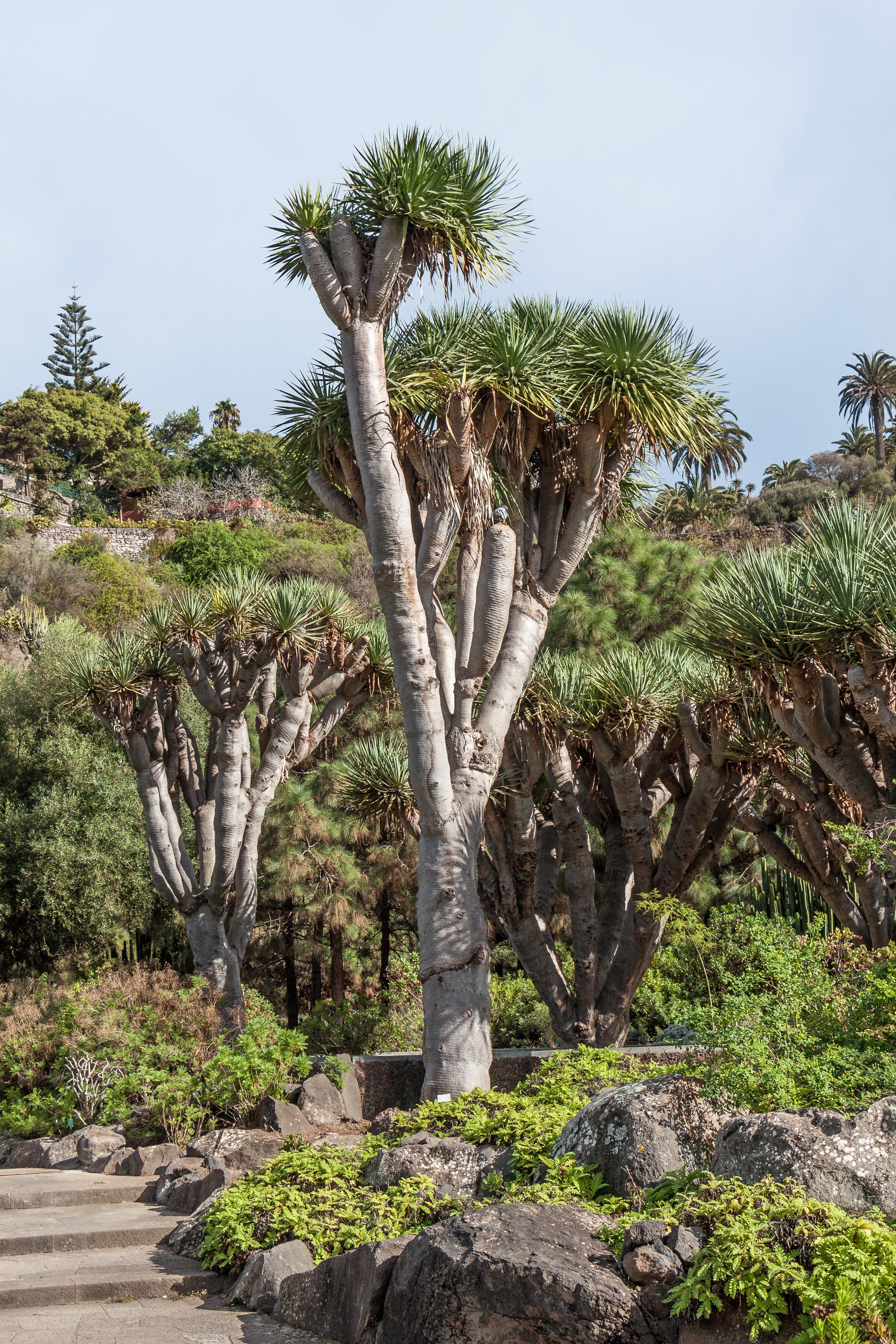 Dracaena draco (L.), Canary Islands dragon tree; Habitus; Jardín Botánico Canario Viera y Clavijo, Gran Canaria, Canary Islands, Spain.